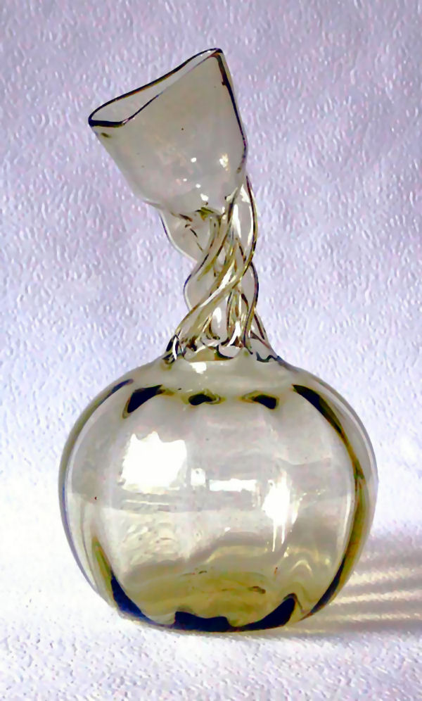 Type of German glas jug that is onion-shaped and has a neck or spout formed of several intertwined tubes (Getty Art & Architecture Thesaurus).